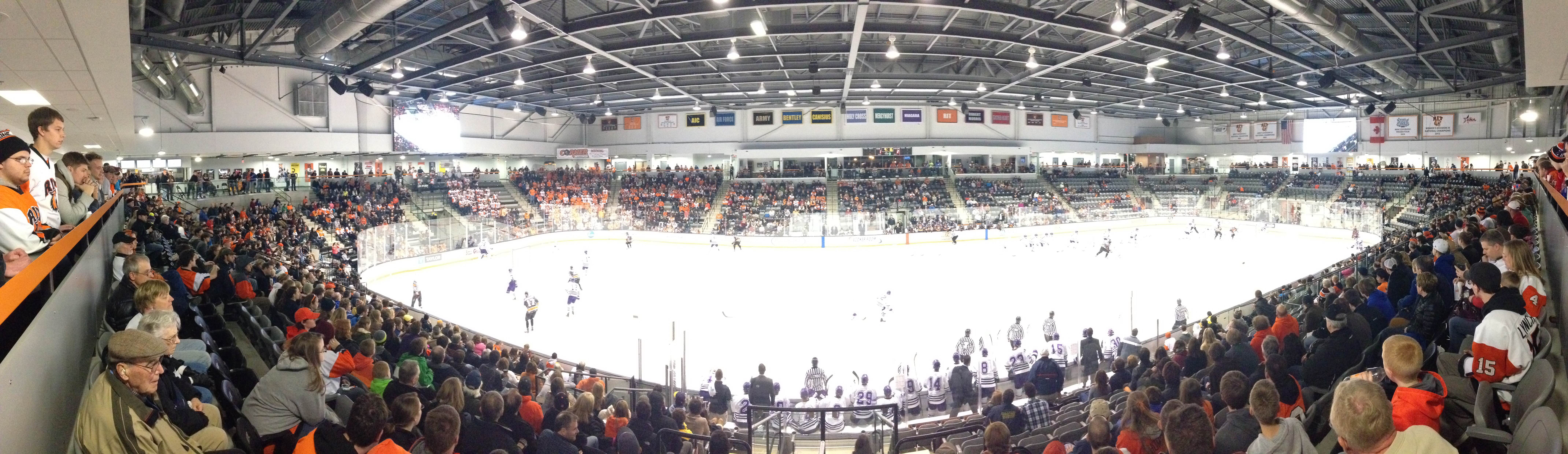 Panoramic View of the Gene Polisseni Center at Rochester Institute of Technology (RIT) [RIT vs. Holy Cross; 1-2]